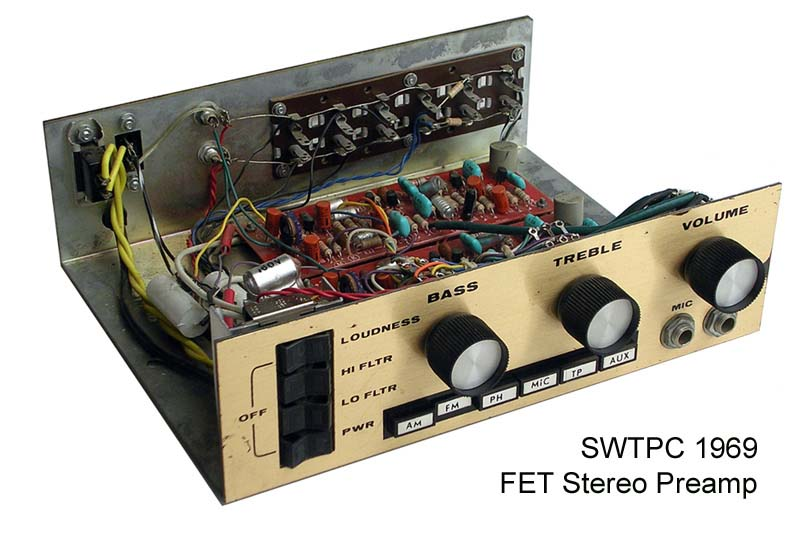 FET Stereo Preamp, Southwest Technical Products Corporation. Designed by Daniel Meyer and published in Popular Electronics, May 1969. This sold for $44.50 in kit form.